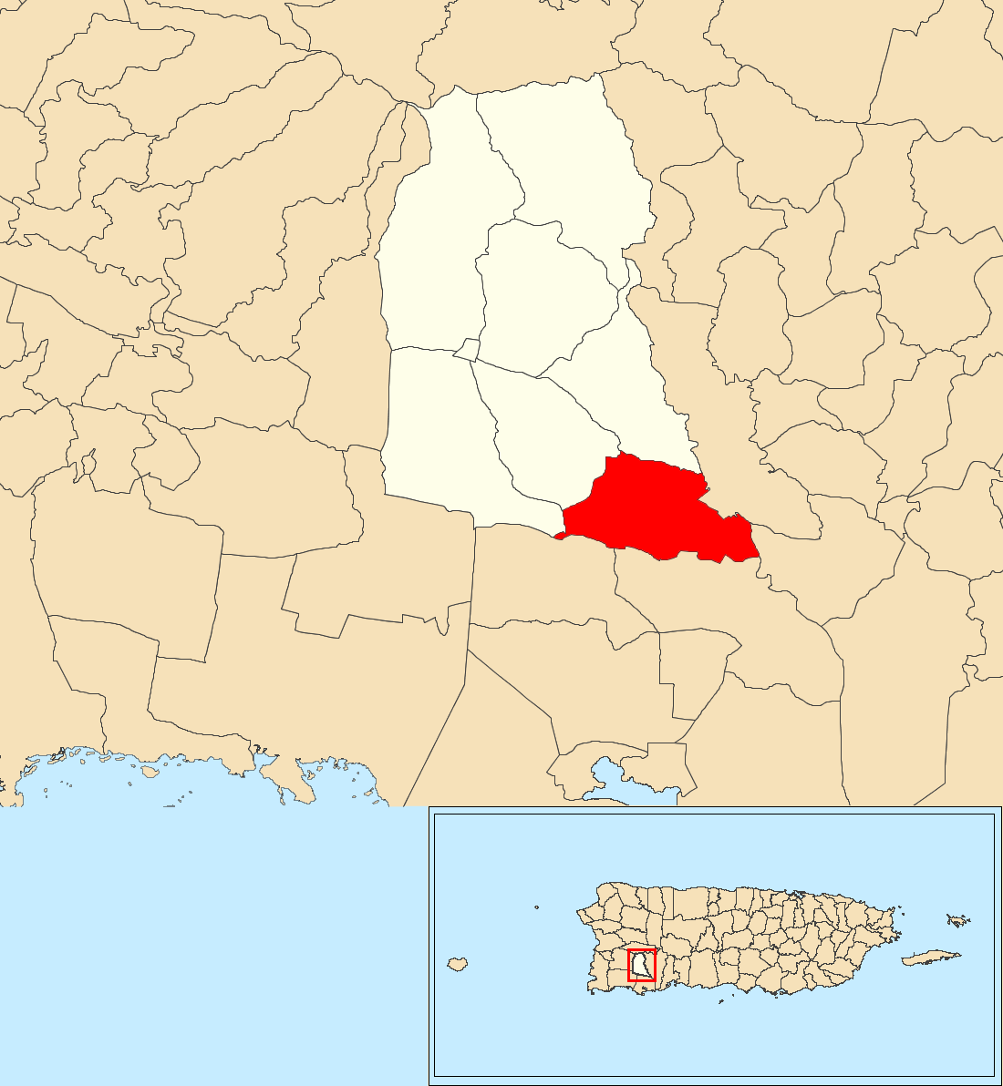 Susúa, Sabana Grande, Puerto Rico locator map